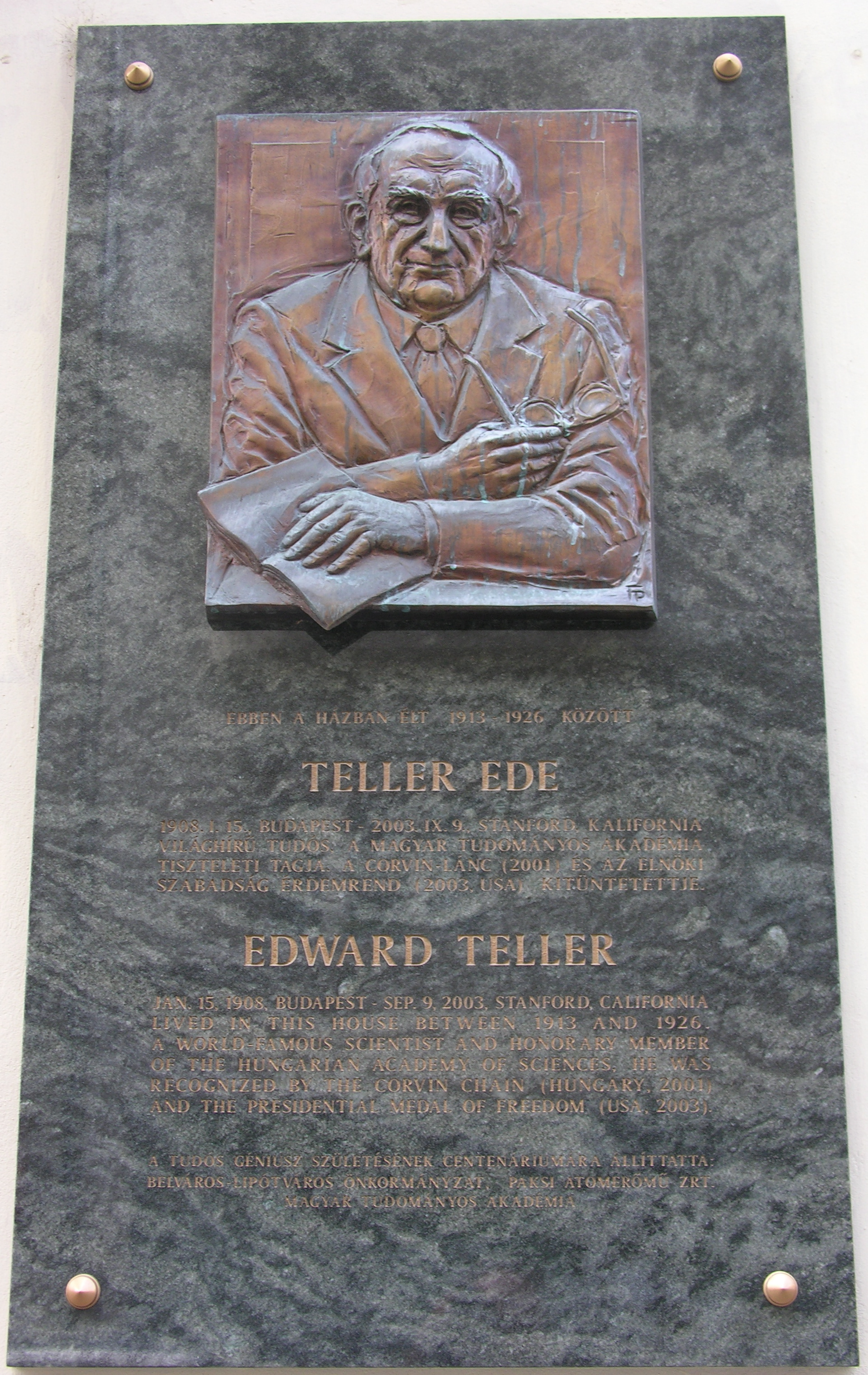 Commemorative plaque of Edward Teller in Budapest District V, Honvéd Street No 18